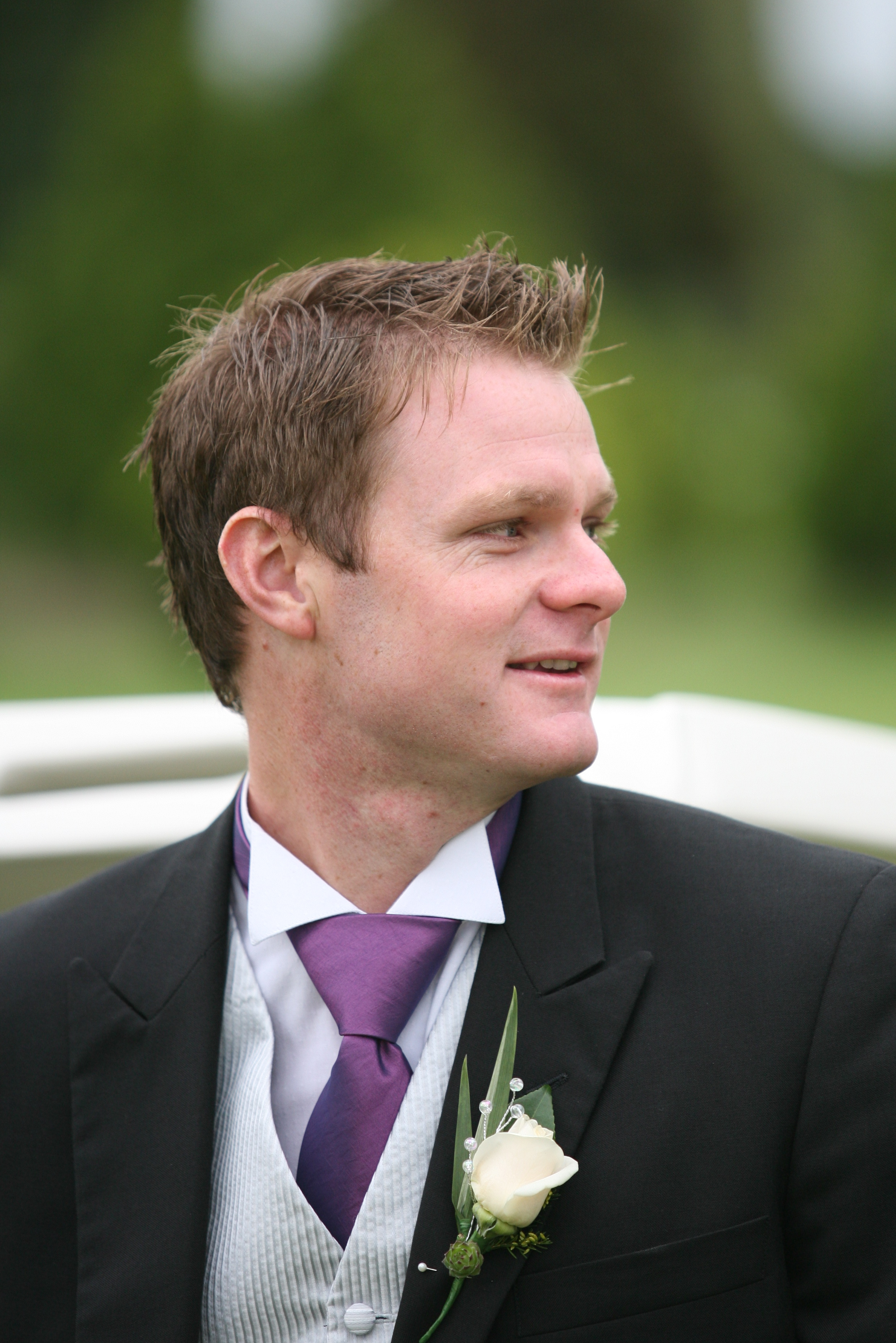 nz hockey icon